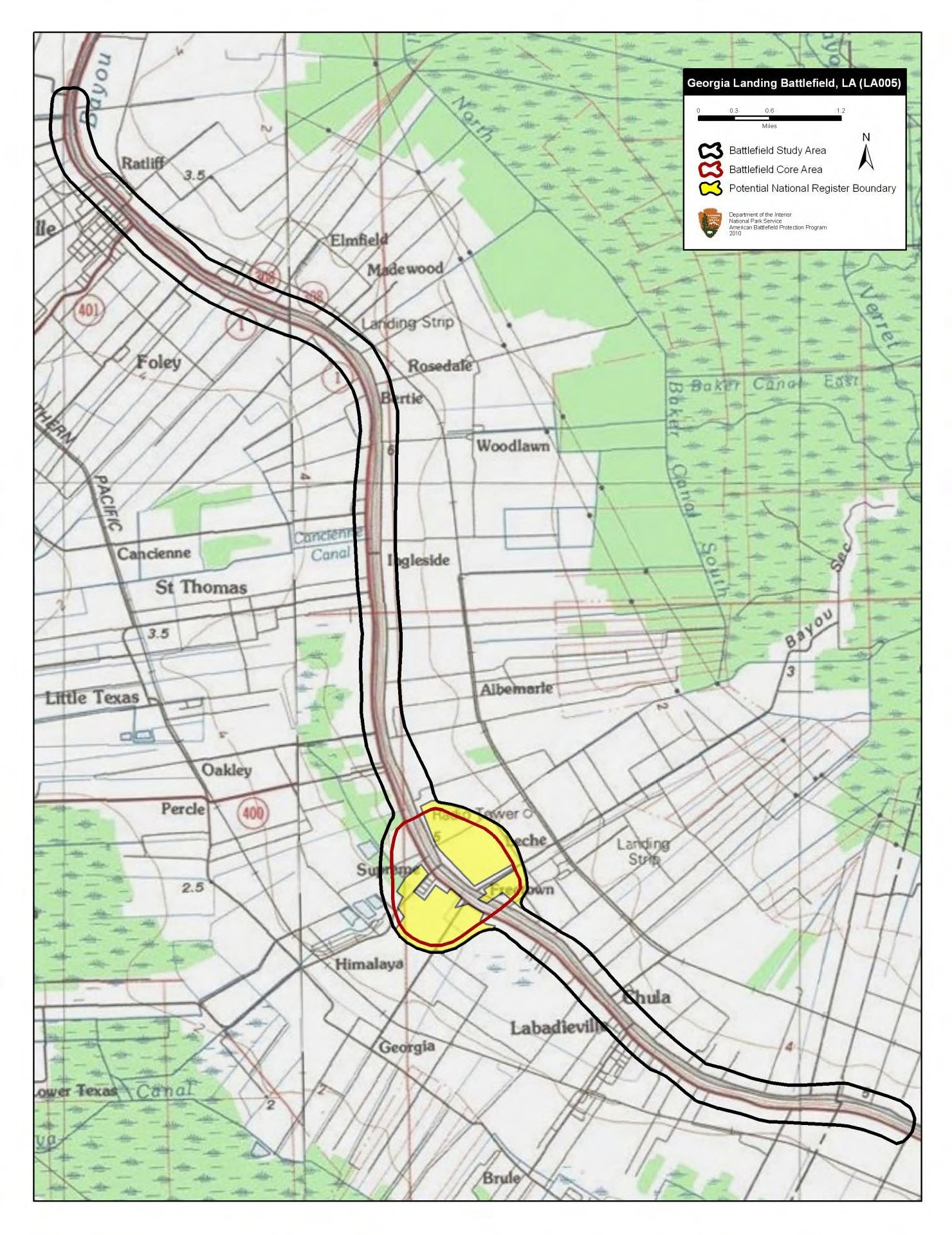 Map of battlefield core and study areas. The Study Area was revised to include the location of the Federal camp north of Napoleonville (from which Weitzel marched to intercept the oncoming Confederates) and the Confederate retreat route south to the point where Federal skirmishers broke off pursuit. The Core Area was expanded slightly to include the location of the Federal pontoon bridge over Bayou Lafourche; Union soldiers crossing at this point came under heavy fire from Confederate infantry and artillery.